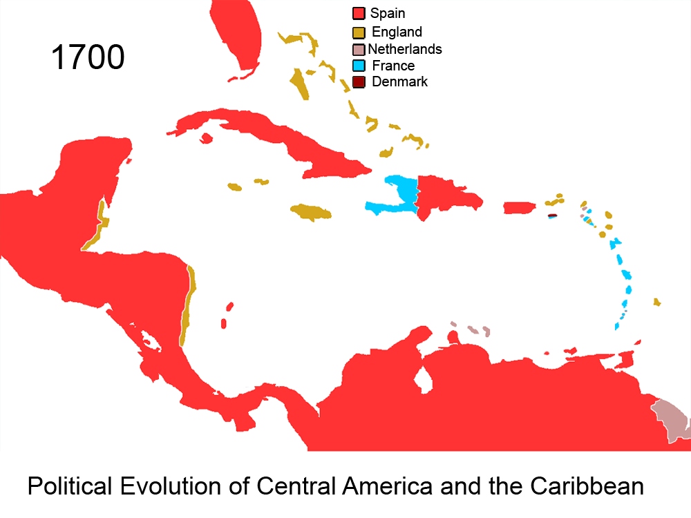 Political Evolution of Central America and the Caribbean